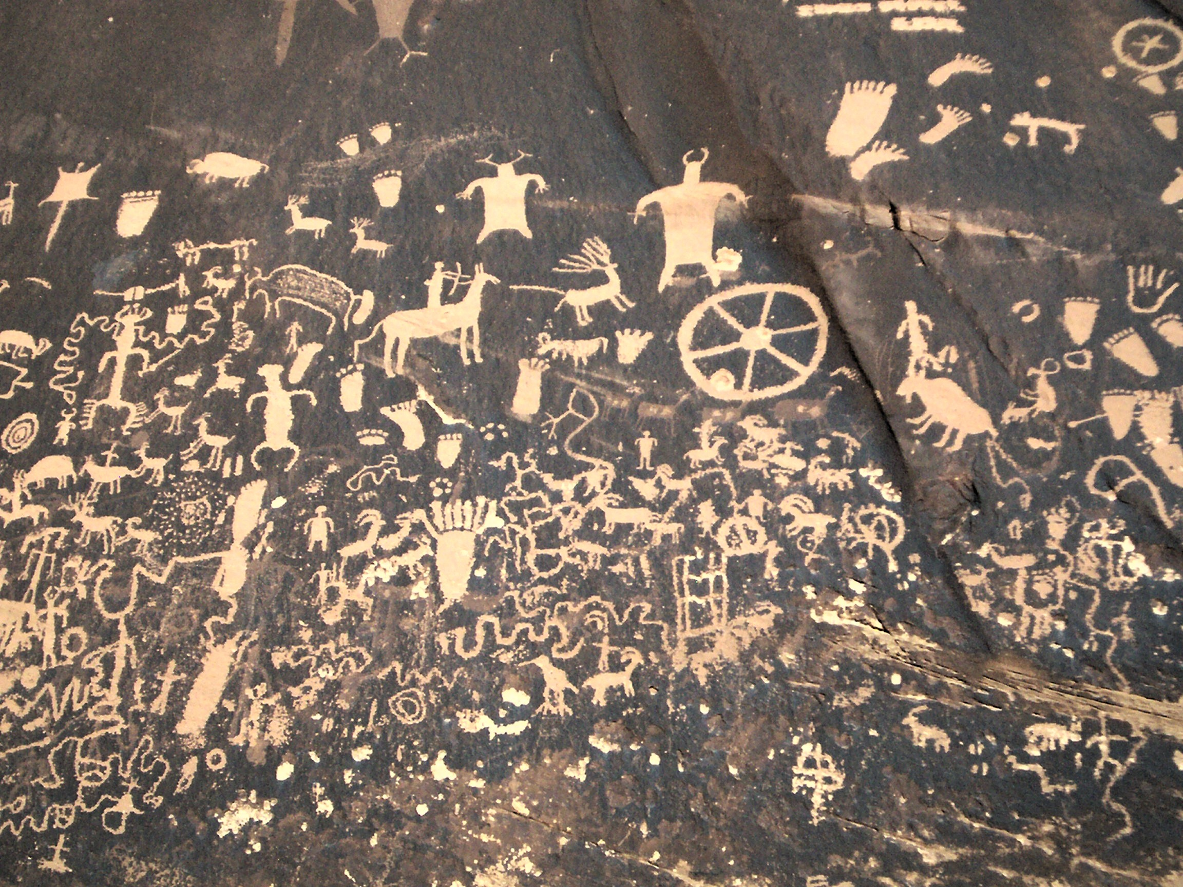 Newspaper Rock in southeastern Utah by David Jolley 2007.